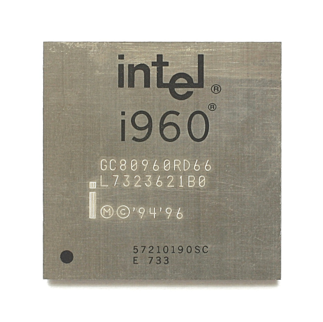 CPU Intel i960 BGA (GC80960RD)